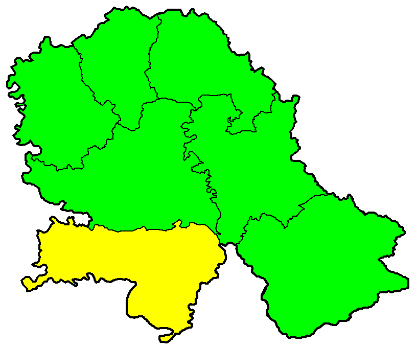 Map of Syrmia